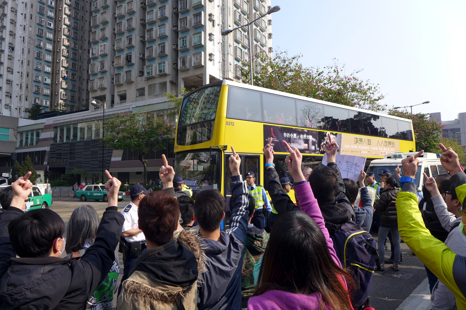 B3X Bus stop Protesters